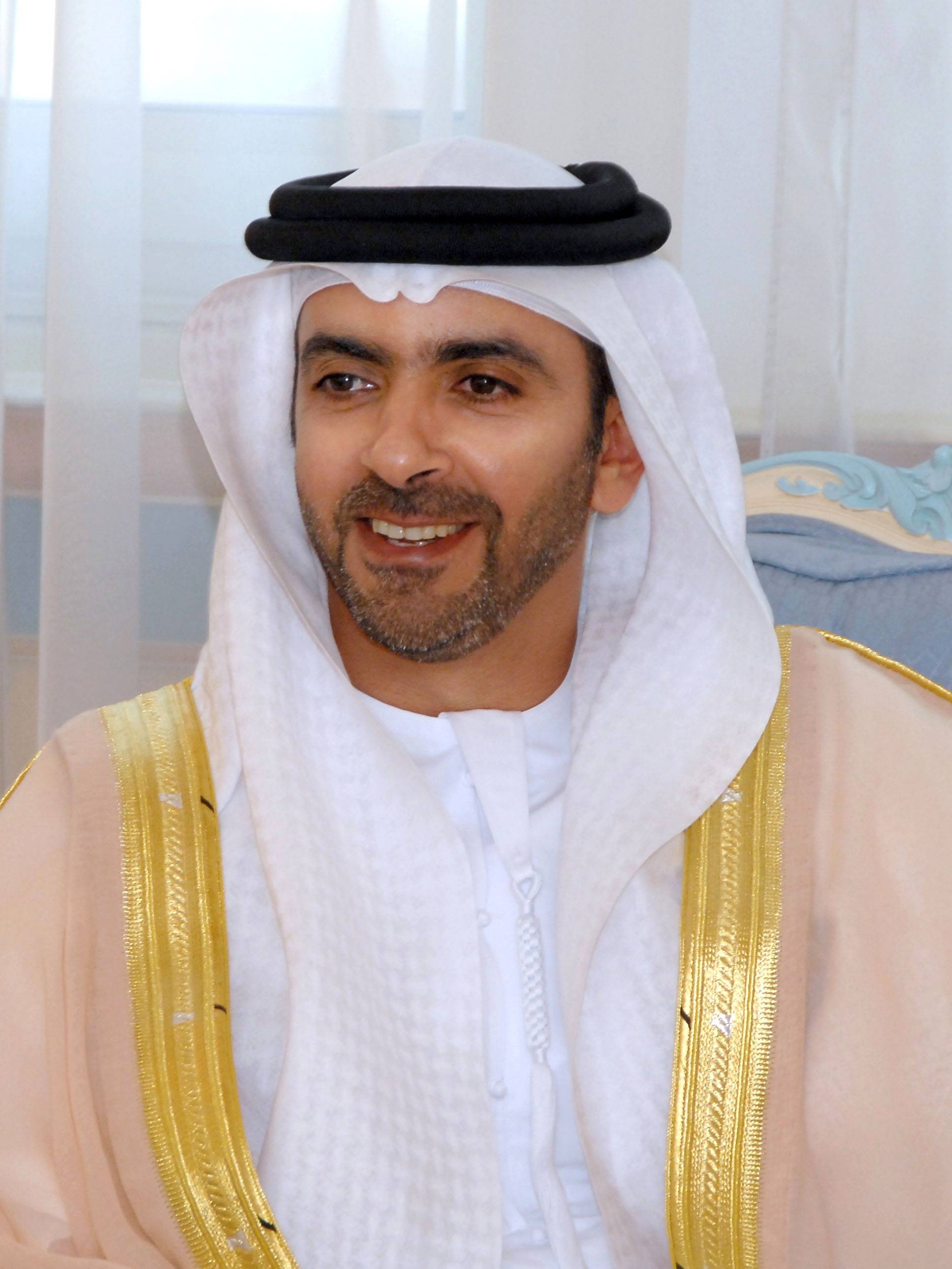 Sheikh Saif bin Zayed Al Nahyan (* 1968), United Arab Emirates's Minister of Interior (2004-) and President of Baniyas SC